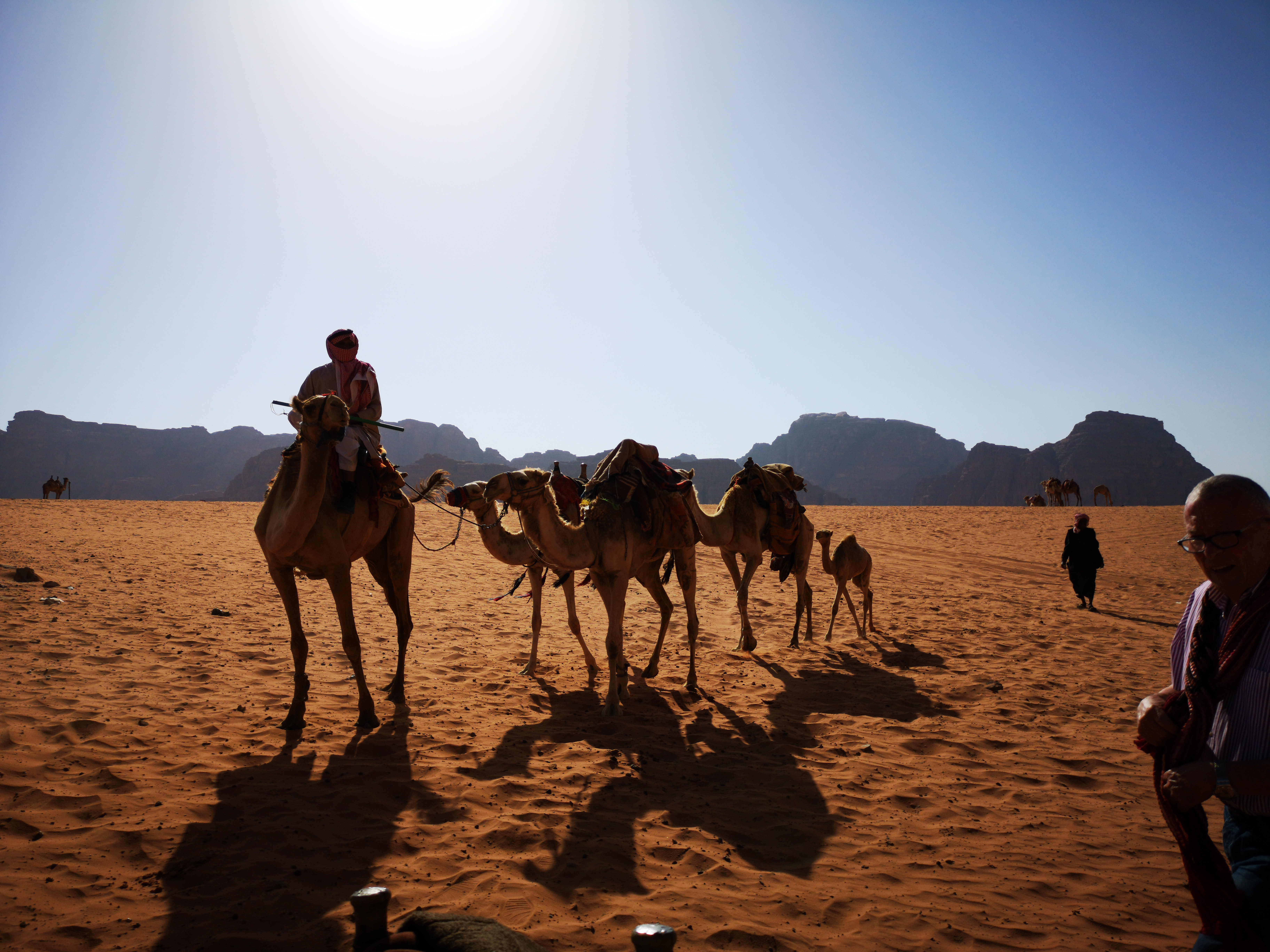 Wadi Rum is a protected Park area in Jordan, a desert with breathtaking landscapes and characterized by its red sand. It is the natural habitat for camels which have been used by man as a means of transportation for centuries.